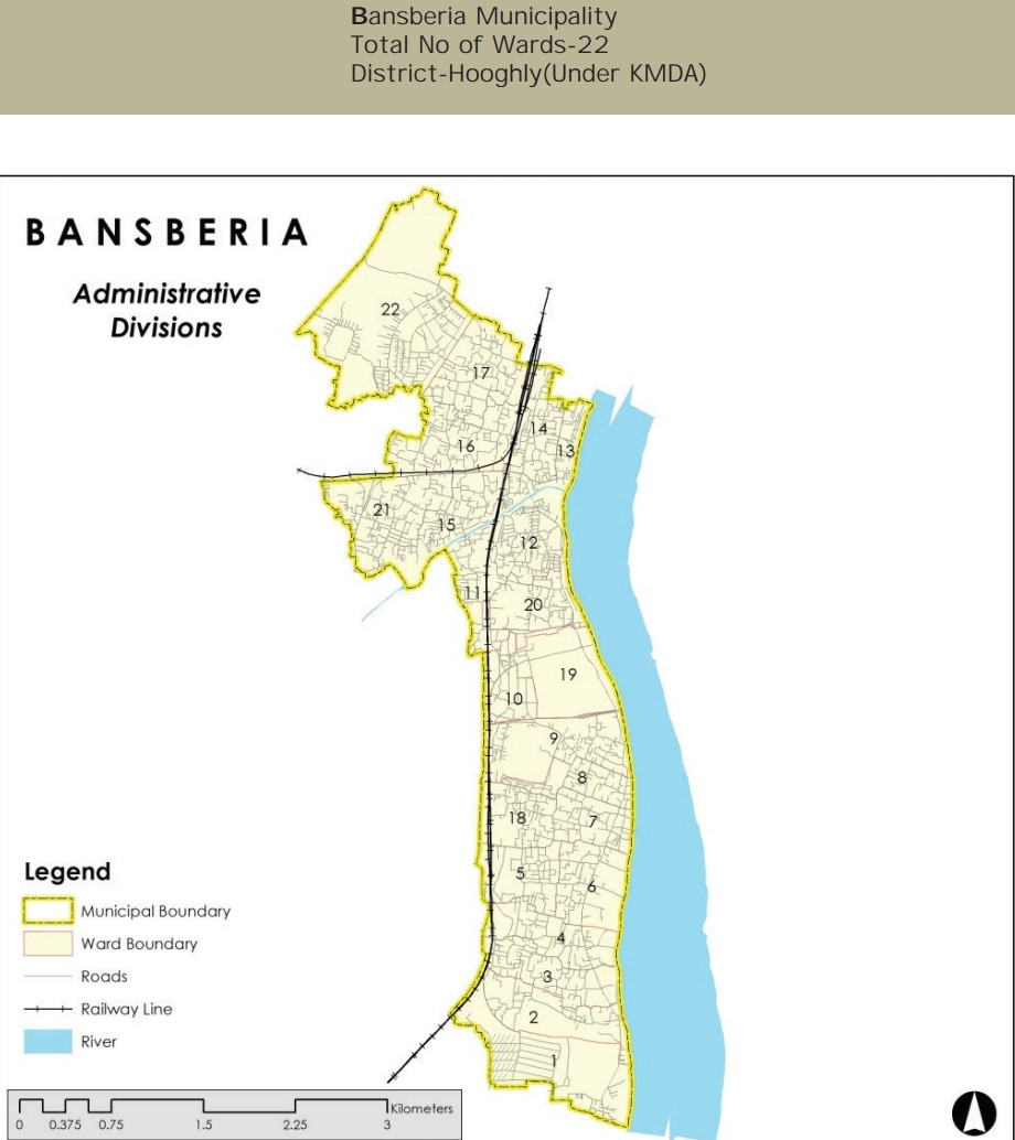 Bansberia Municipality Map,KMDA